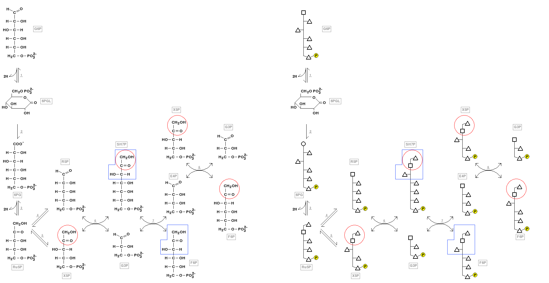 Pentose phosphate pathway components using Fischer representation comparing to polygonal model. The last form is easier and faster to read and write, and shows with clarity each change of the intermediates in the reactions.